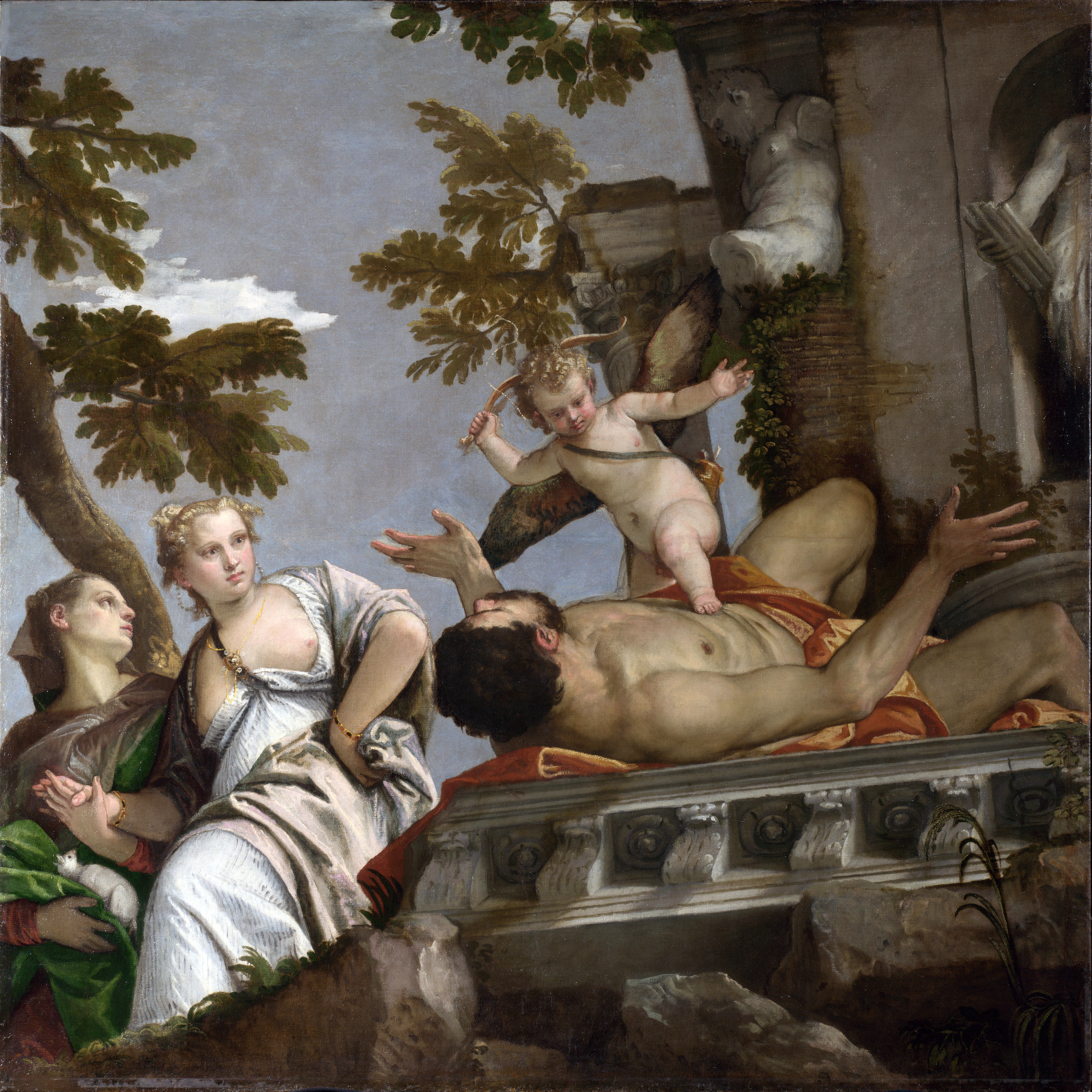 From the Allegory of Love series